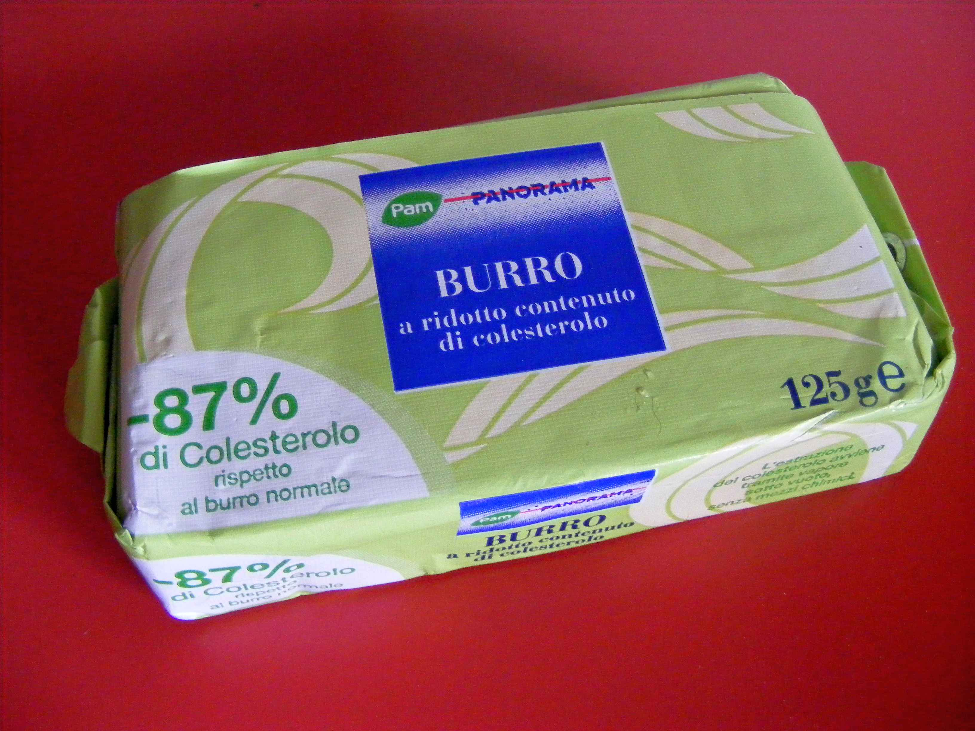 Reduced cholesterol butter